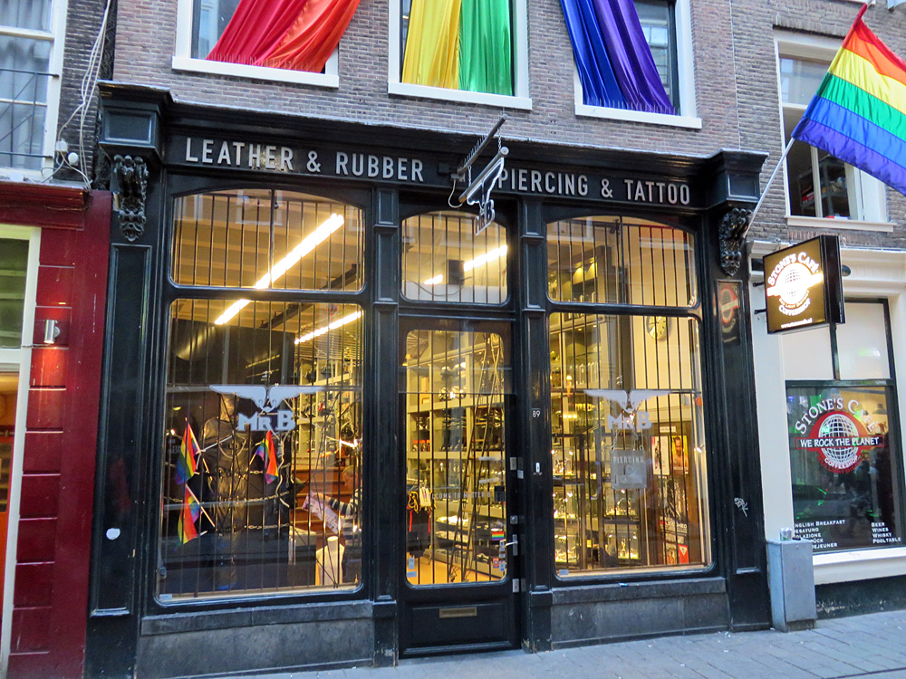 The leather and rubber fetish store Mr. B at Warmoesstraat 89 in Amsterdam. Here during the Amsterdam Gay Pride of 2015. The shop was opened on March 2, 1994 by Wim Bos and moved to Prinsengracht 192 on September 1, 2018.